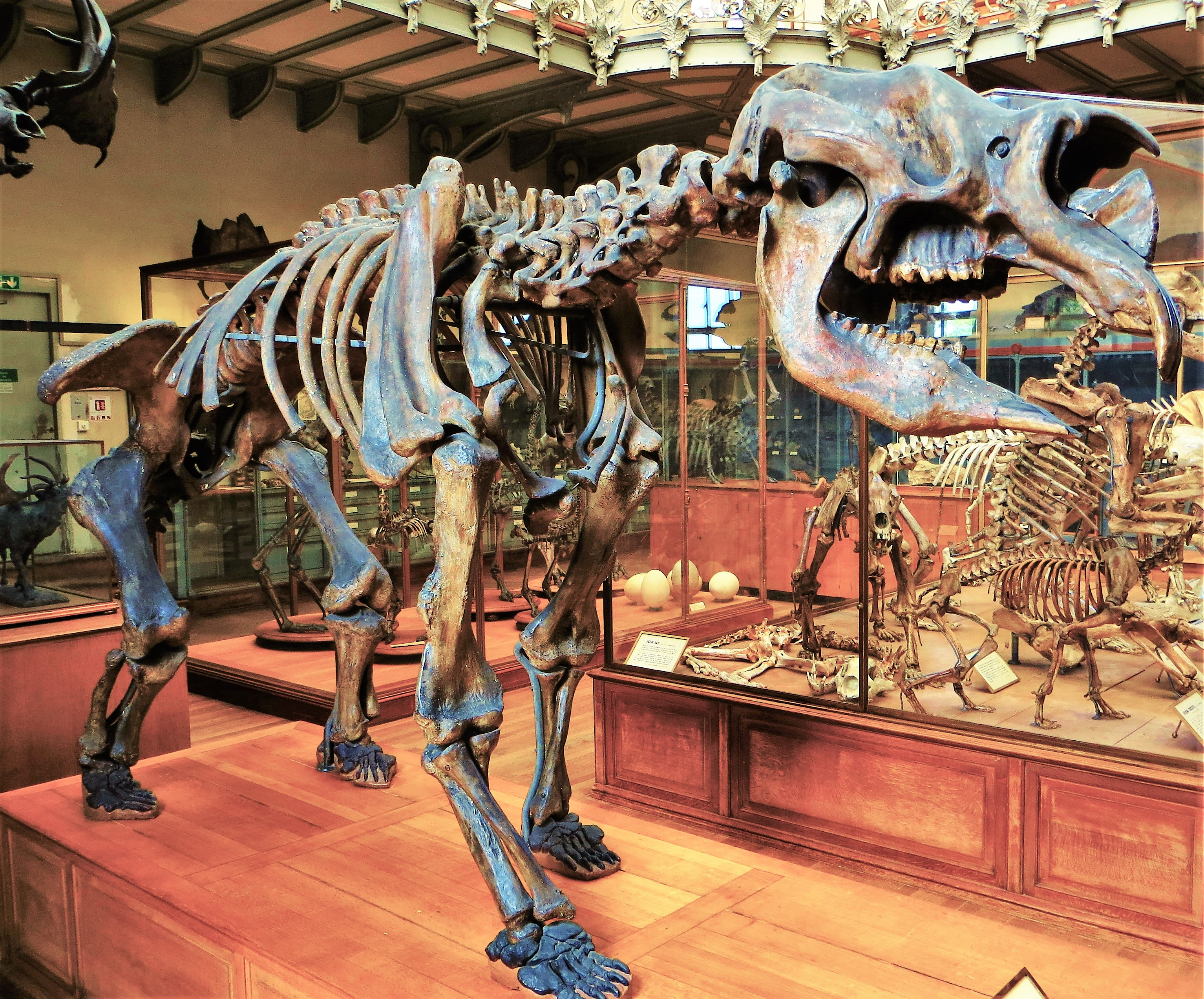 Cast of a Diprotodon skeleton on exhibit at the Gallery of Paleontology and Comparative Anatomy of the French National Museum of Natural History, in the Jardin des plantes, Paris. Diprotodon was a giant marsupial mammal from Australia, the largest marsupial known to date. The Diprotodon genus went extinct about 45,000 years ago.